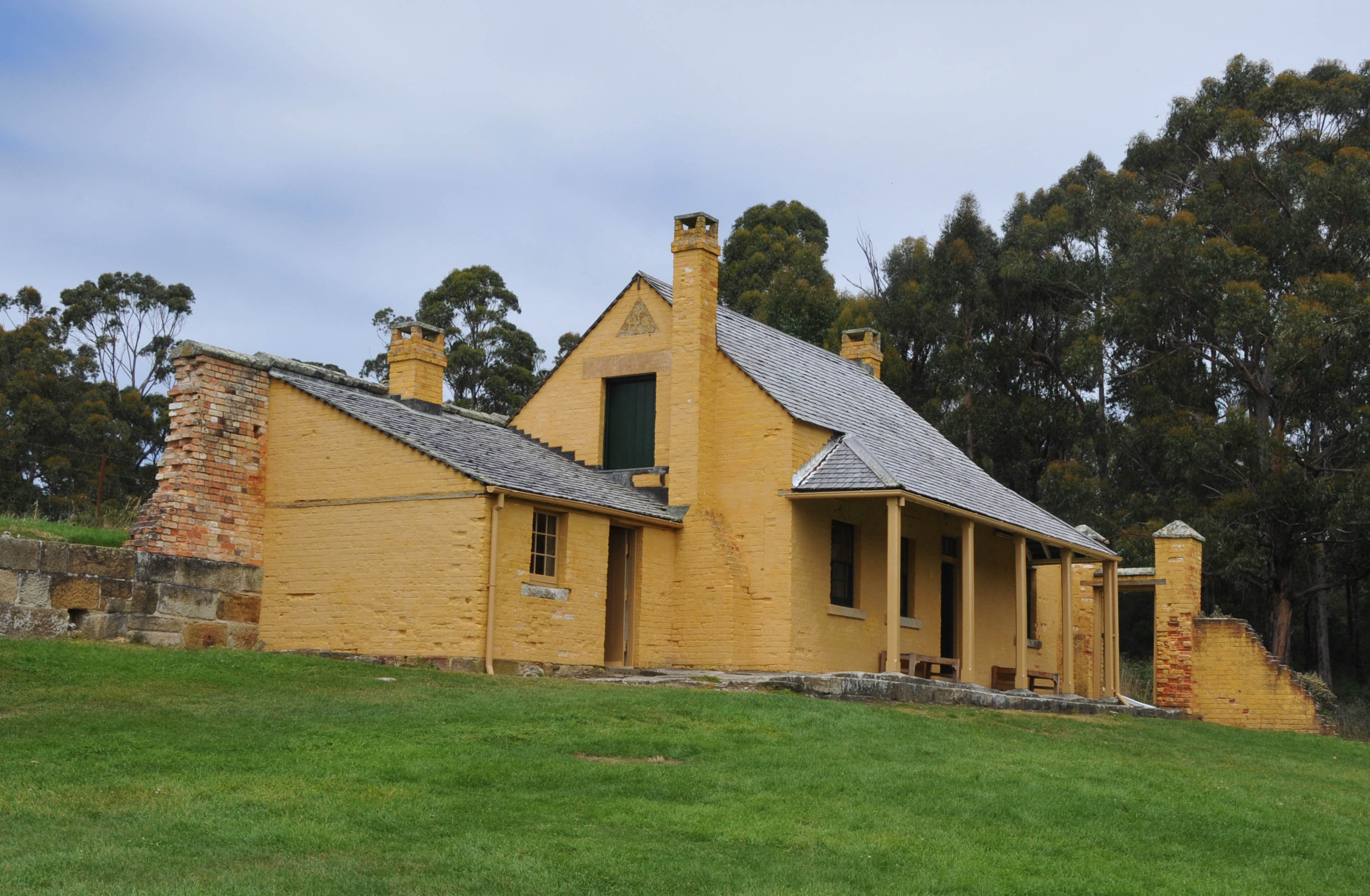 SMITH O’BRIEN’S COTTAGE – A POLITICAL PRISONER FOR BEING A LEADER OF THE YOUNG IRELAND GROUP IN THE UNSUCCESSFUL REBELLION NEAR KILKENNY. THERE WERE FEW POLITICAL PRISONERS SENT TO PORT ARTHUR. SEE :PORT ARTHUR TASMANIA" IN WIKIPEDIA.